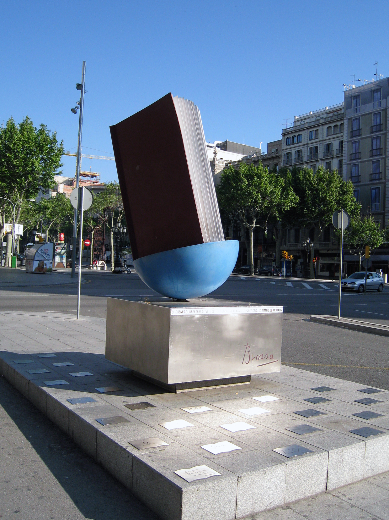 Monument al llibre (“Monument to the book”), sculpture from the year 1994 by Joan Brossa for the Gremi de llibreters de vell de Catalunya (“Guild of second-hand booksellers of Catalonia”) at the crossing Passeig de Gràcia with Gran Vía in Barcelona, Catalonia (Spain).